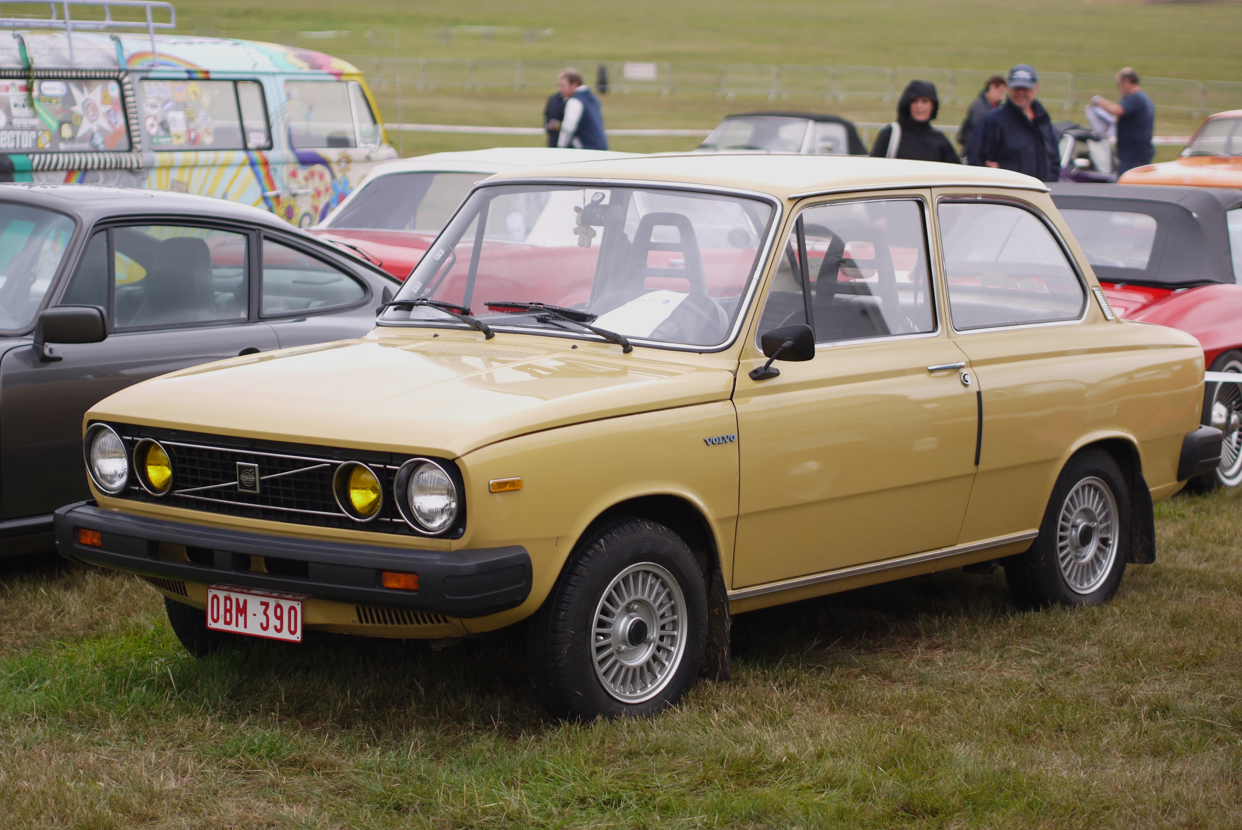 Volvo 66L, Schaffen Diest Fly-Drive 2013